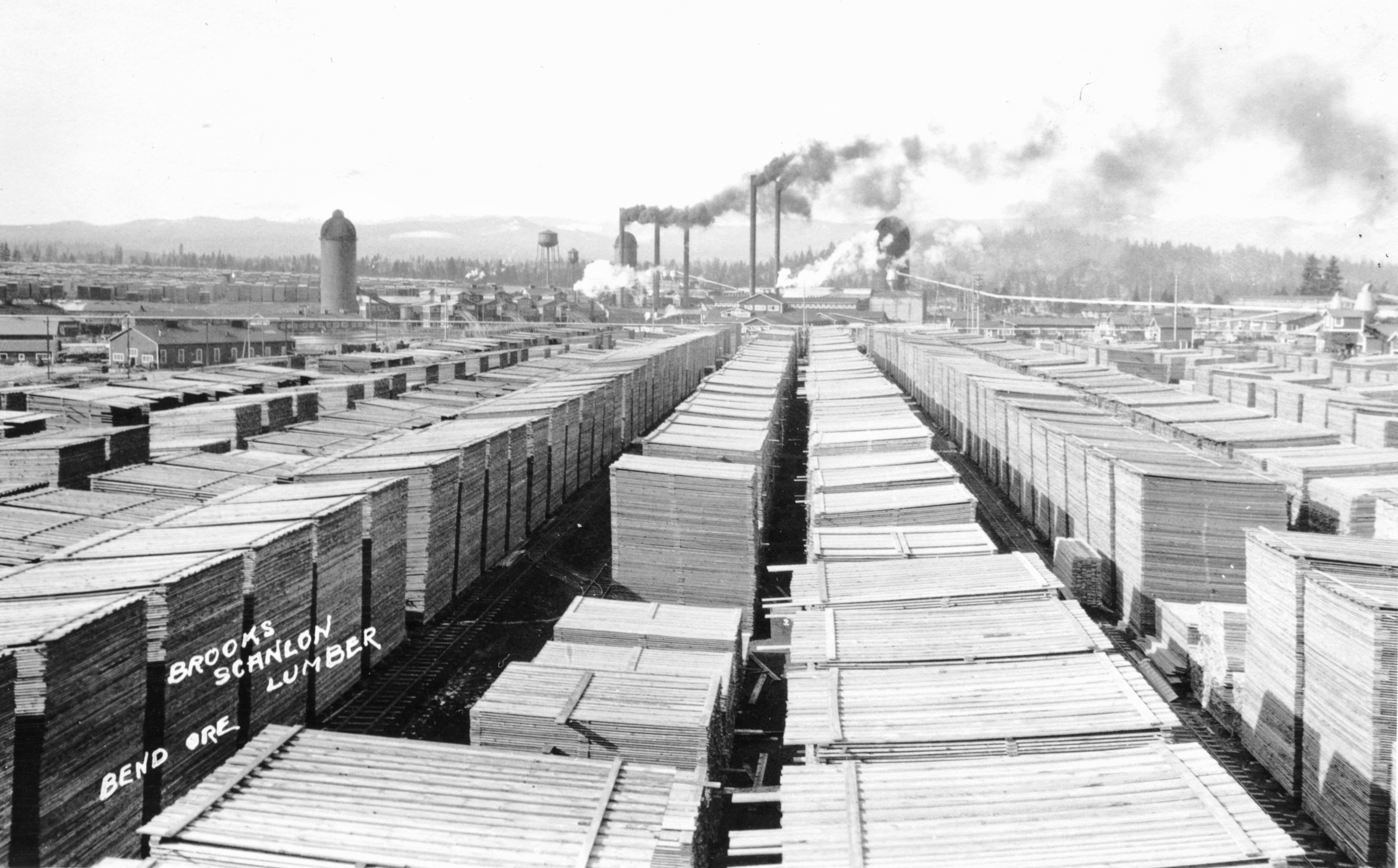 Original Collection: Gerald W. Williams Collection Item Number: WilliamsG_CO_Brooks Scanlon1 You can find this image by searching for the item number by clicking Want more? You can find more We're happy for you to share this digital image within the spirit of The Commons; however, certain restrictions on high quality reproductions of the original physical version may apply. To read more about what “no known restrictions” means, please visit the or contact staff at the OSU Special Collections & Archives Research Center for details.